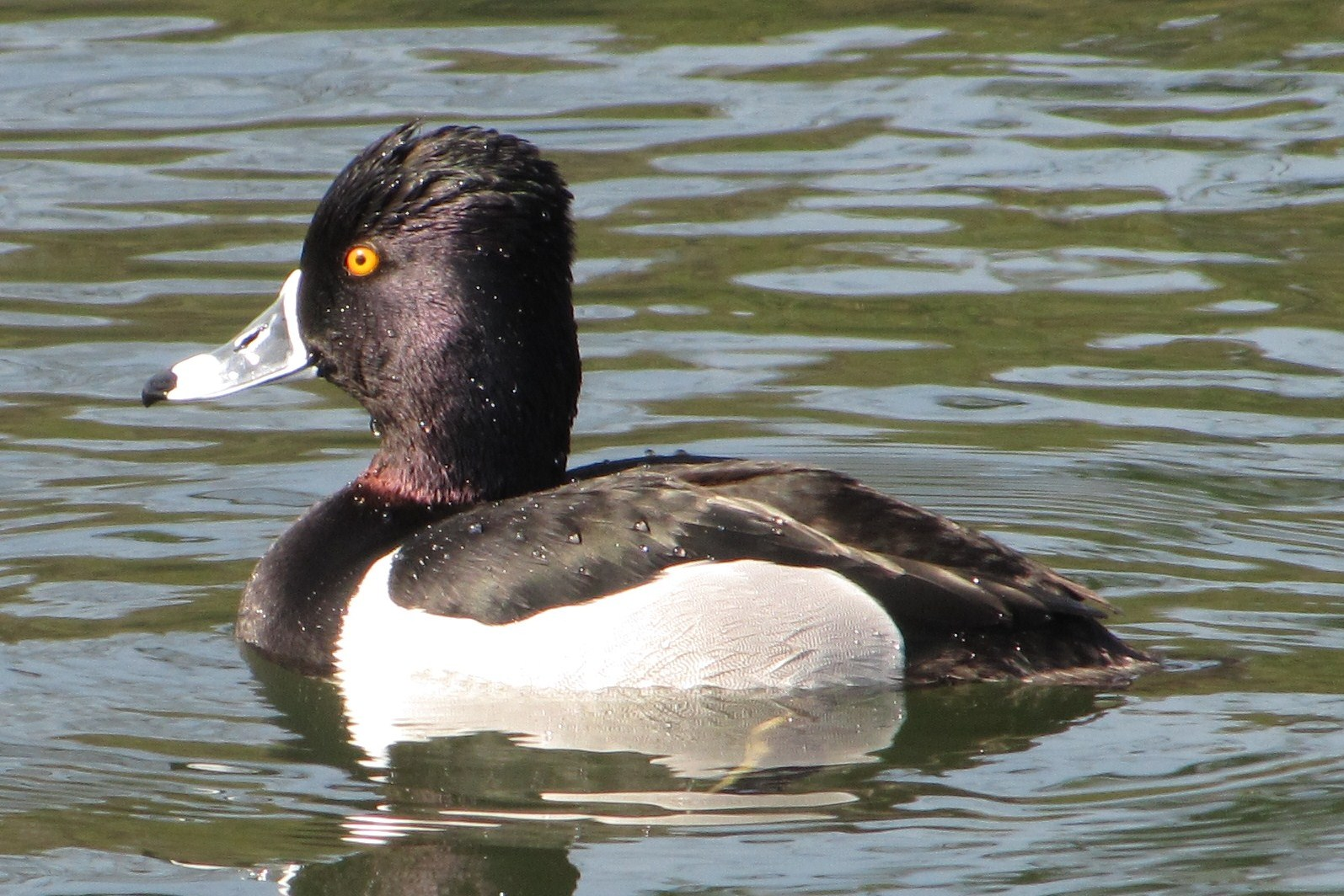 Ring-necked duck male (Aythya collaris) Location: Ralph B. Clark Regional Park, Buena Park, CA, USA The red line around the neck for which the species takes its name is visible in this image.